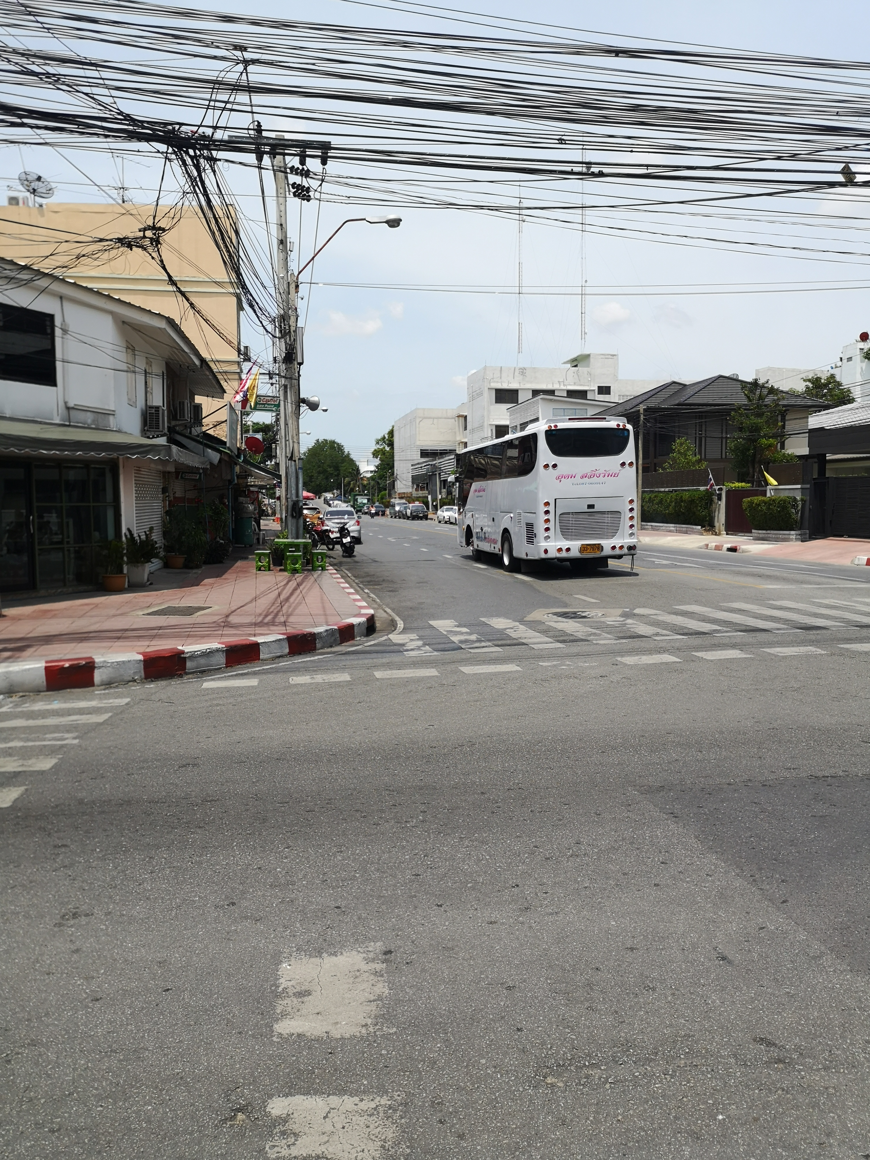 Thanon Pichai